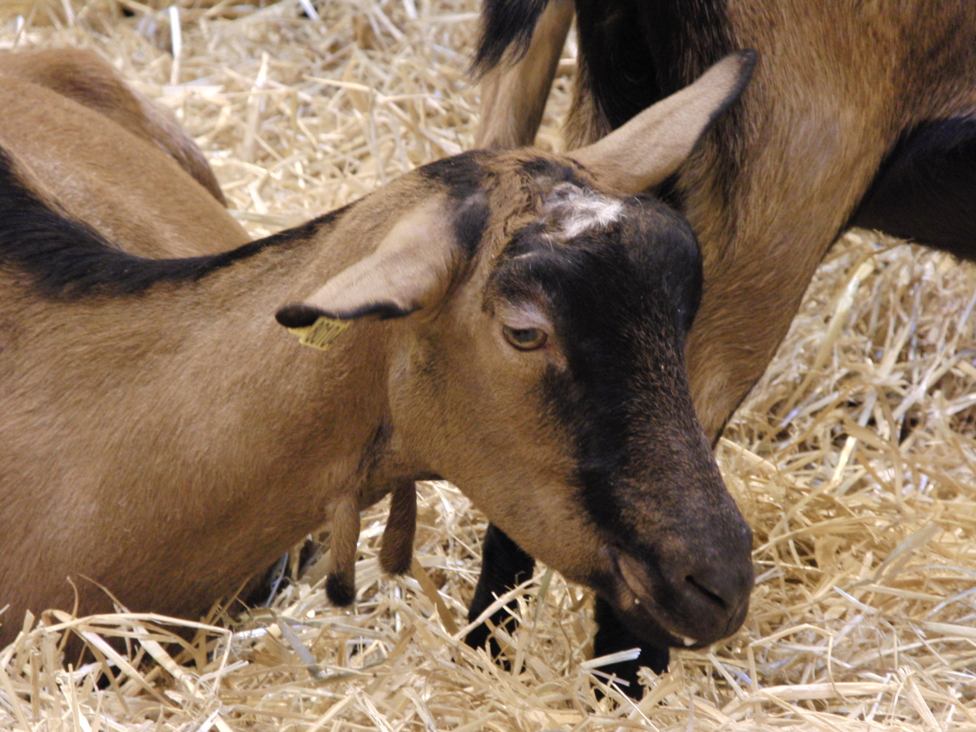 Alpine goat - Salon international de l'agriculture 2011, Paris, France